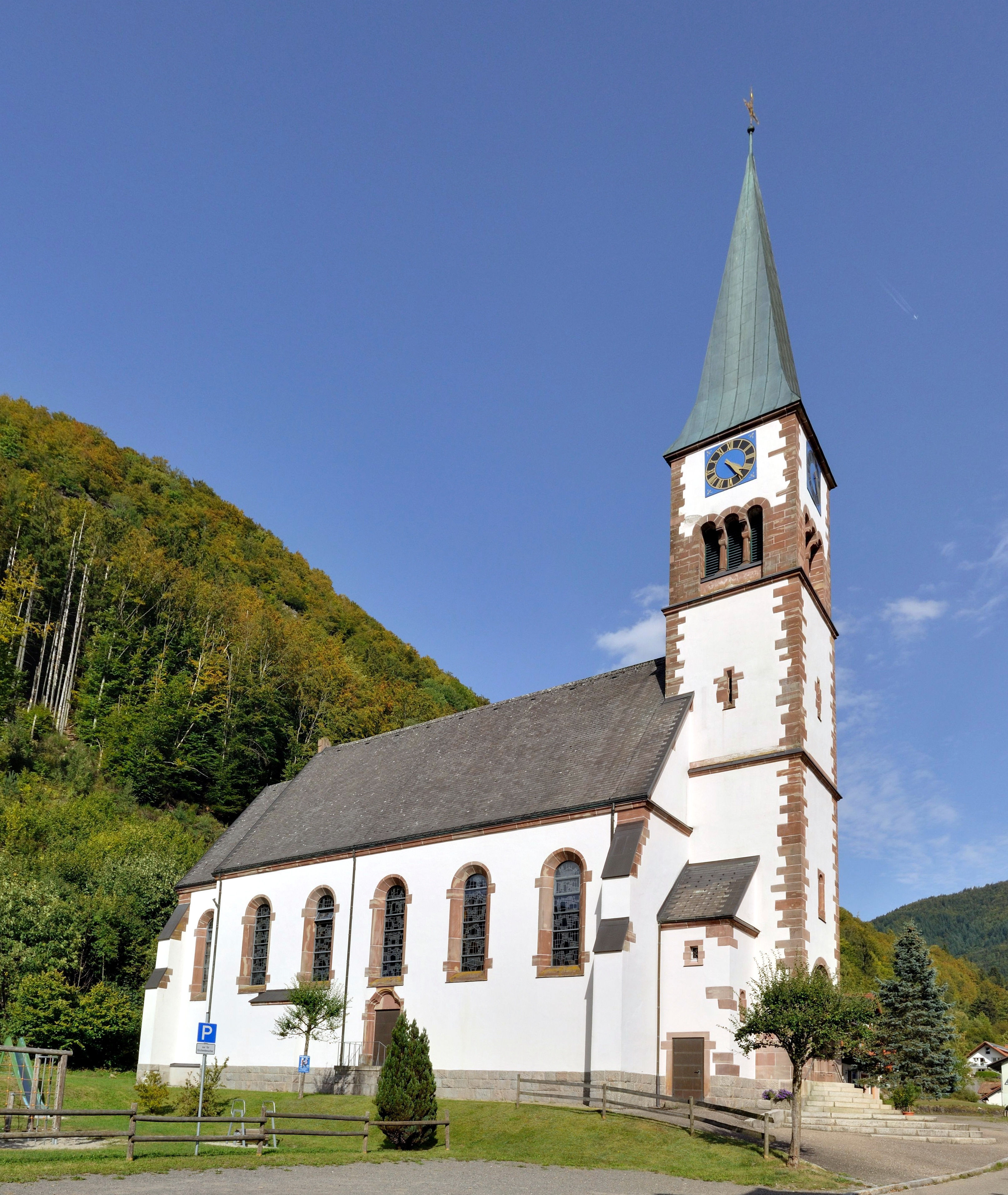 Geschwend: Saint Wendelin Church